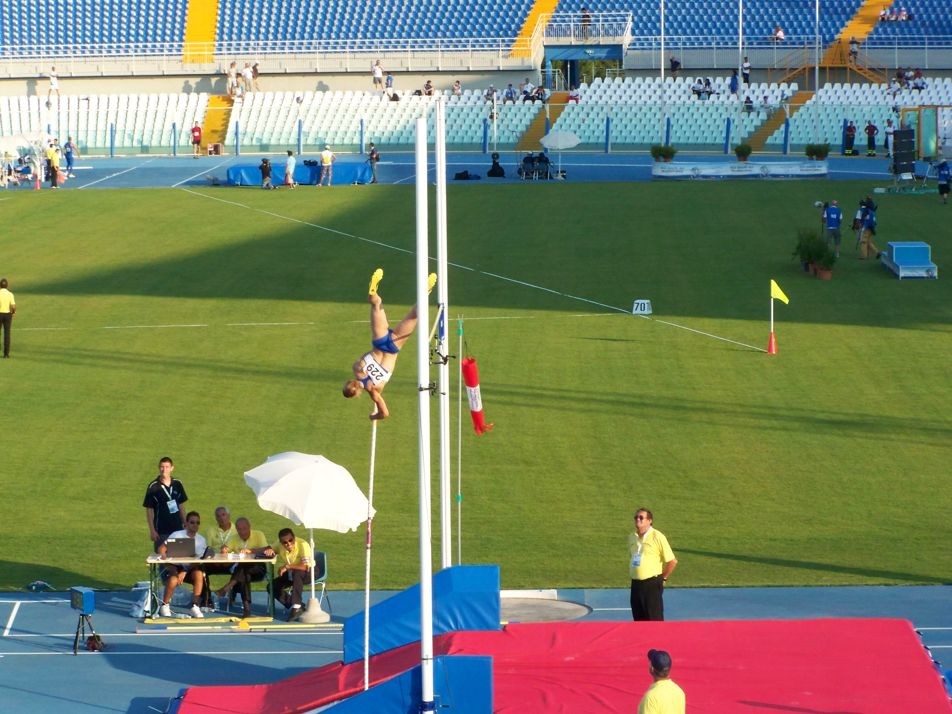 Nikoleta Kyriakopoulou during the women's pole vault event at the XVI Mediterranean Games in Pescara